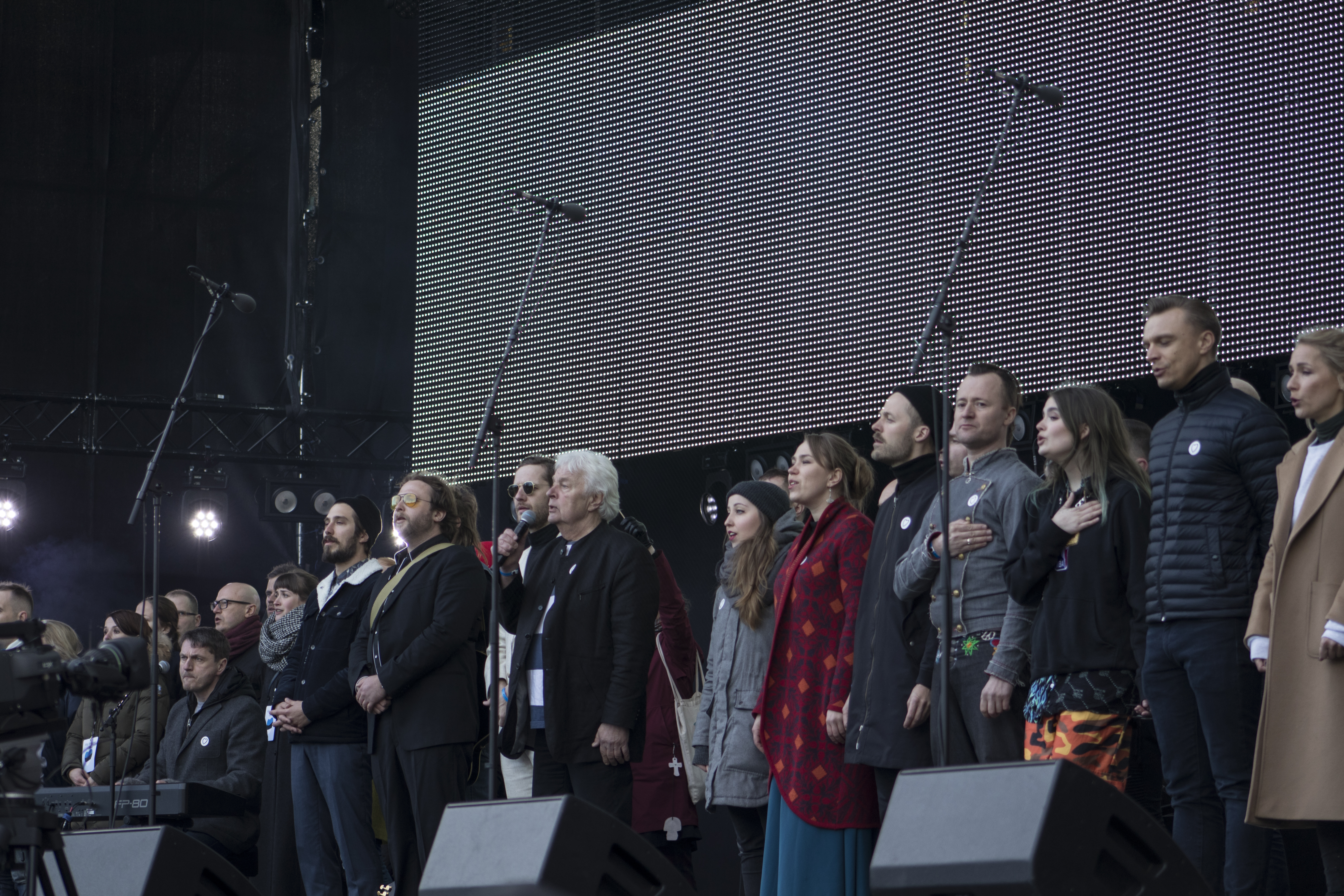 Estonian national anthem, sung by the Kõigi Eesti Laul artists in Tallinn, Estonia, 14 April 2019